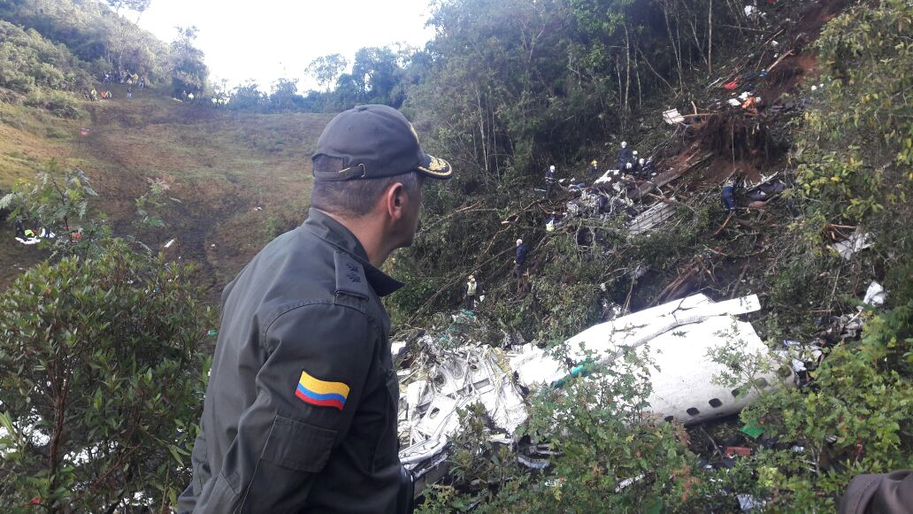 Rescue workers of the National Police of Colombia at the crash site of LaMia Airlines Flight 2933, near La Unión, Antioquia.